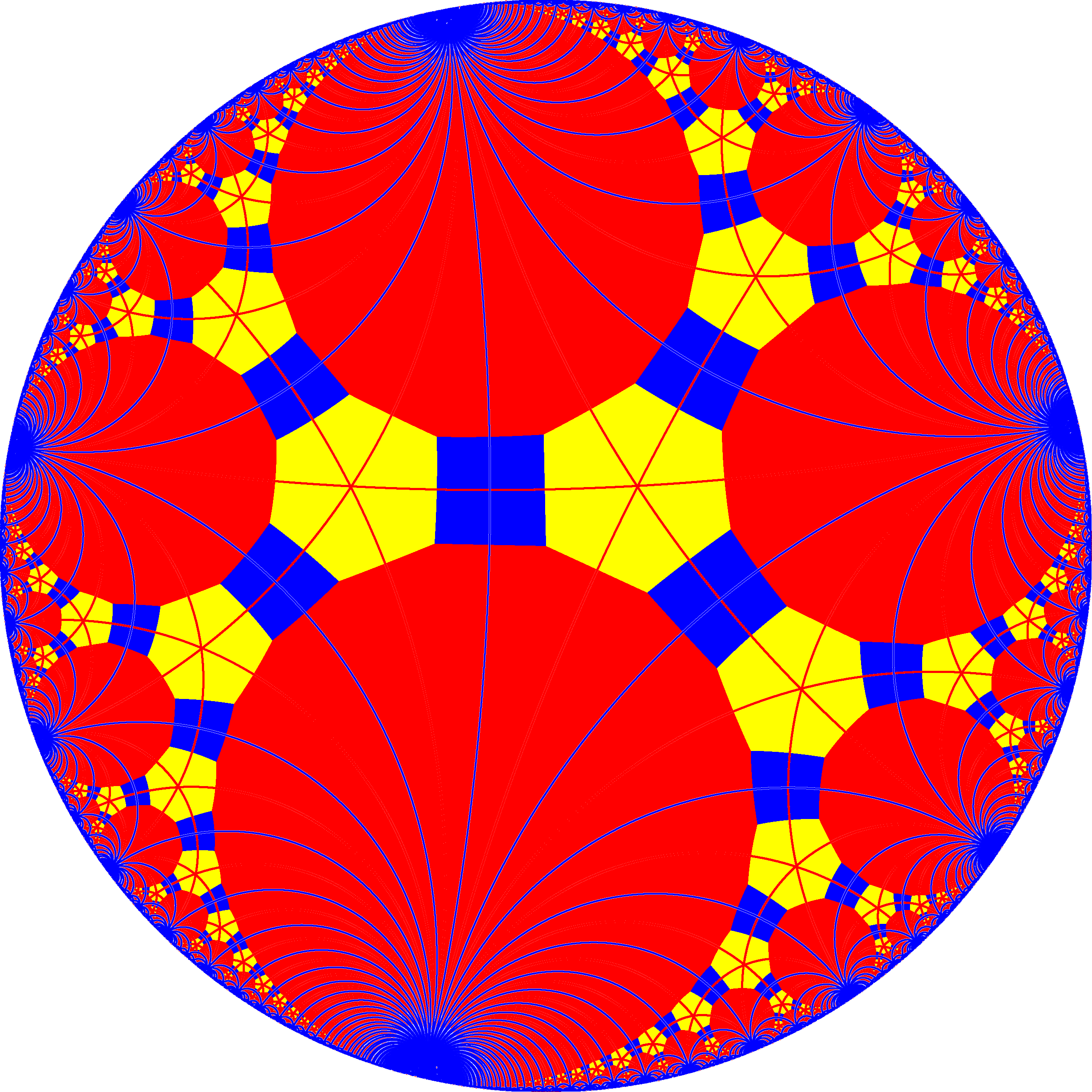 file:File:H2_tiling_23i-7.png with File:I32_symmetry_mirrors.png overlay